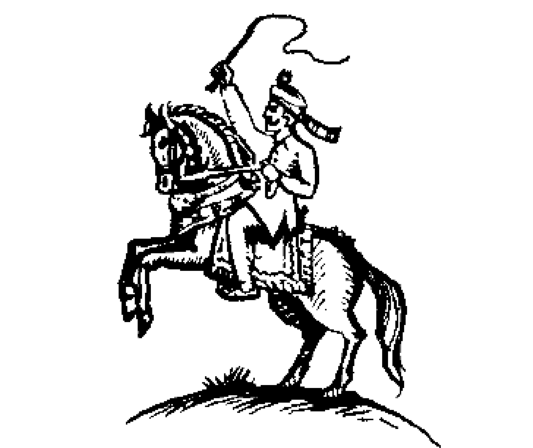 One of the simple symbols used in Indian Elections